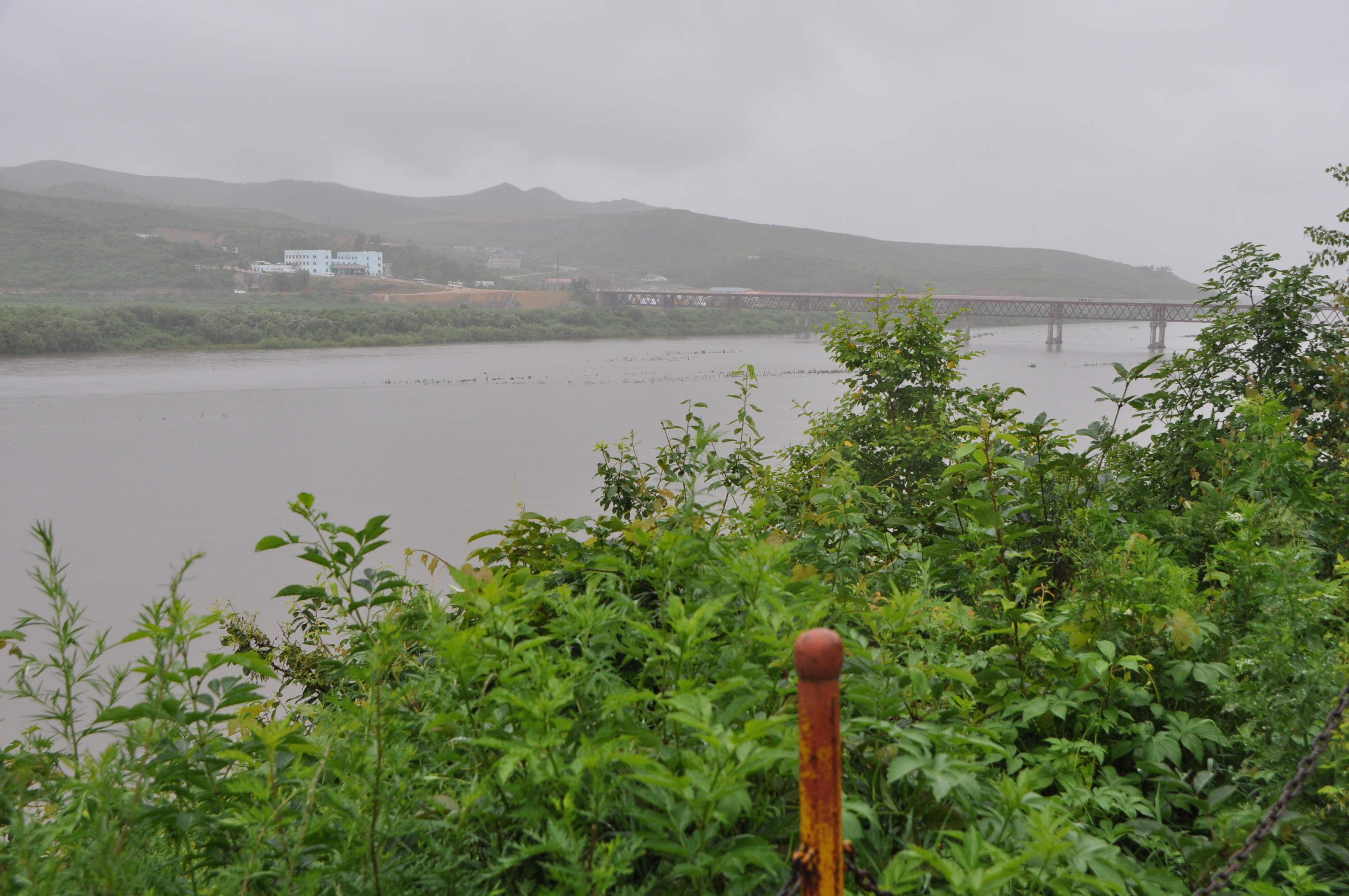 Hunchun Quanhe Tumen River Bridge (珲春圈河图们江大桥) from a roadside park